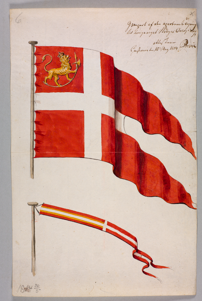 Oldest know drawing of the first Norwegian flag in 1814